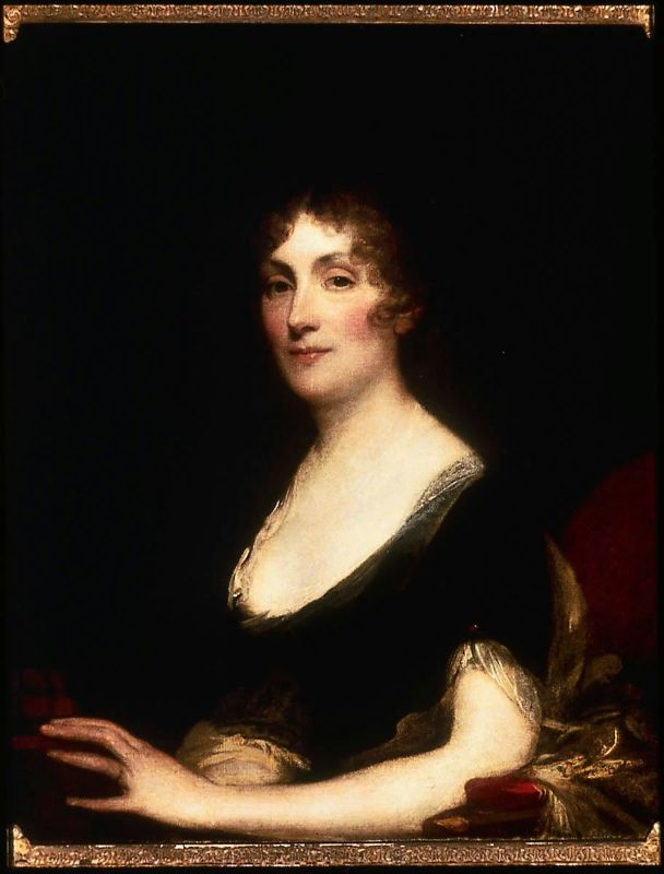 Mrs. Perez Morton (Sarah Wentworth Apthorp). about 1802. By Gilbert Stuart. 73.98 x 60.96 cm (29 1/8 x 24 in.). Oil on canvas. Museum of Fine Arts, Boston